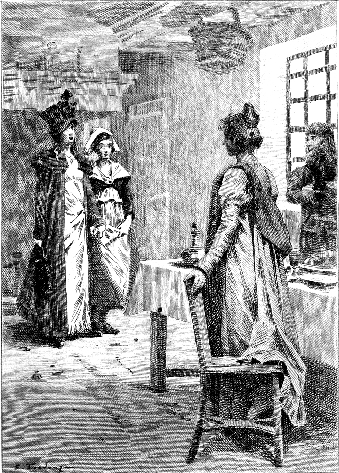 Illustration of Honoré de Balzac's The Chouans (1829).